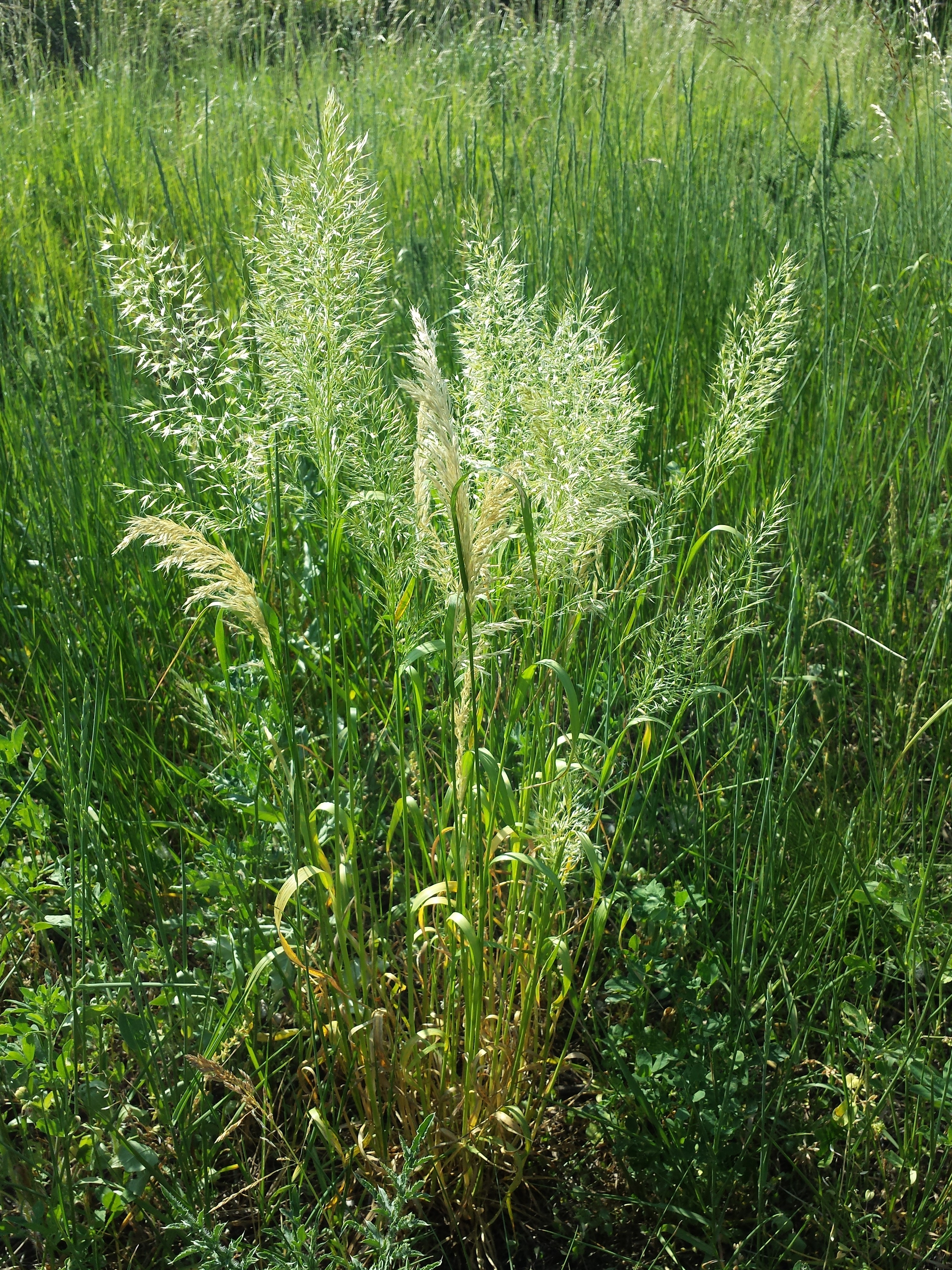 Habitus Taxonym: Trisetum flavescens subsp. flavescens ss Fischer et al. EfÖLS 2008 ISBN 978-3-85474-187-9 Location: "In der Hölle" near Wetzleinsdorf, district Korneuburg, Lower Austria - ca. 280 m a.s.l. Habitat: fallow land